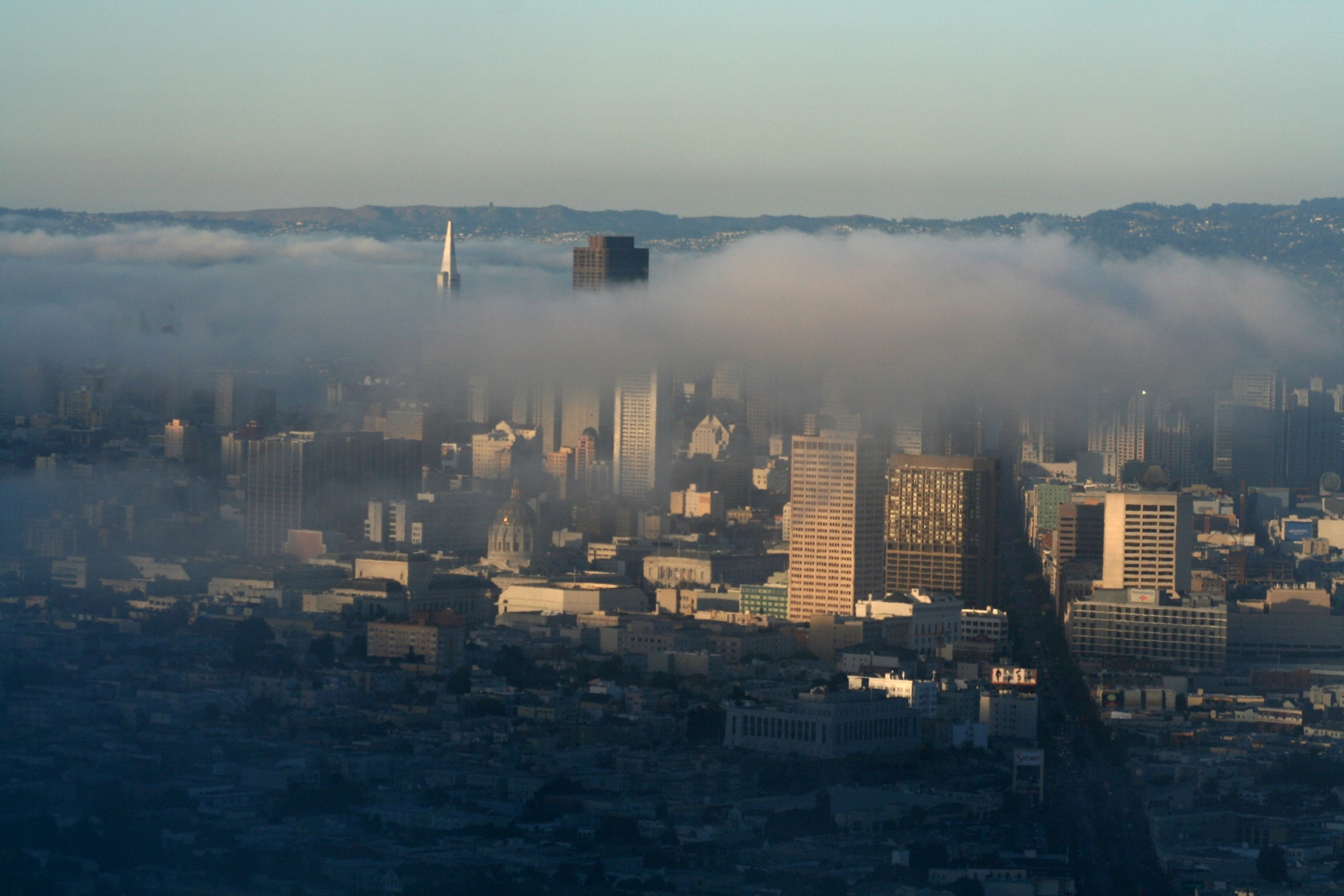 San Francisco Financial District as seen from Twin Peaks